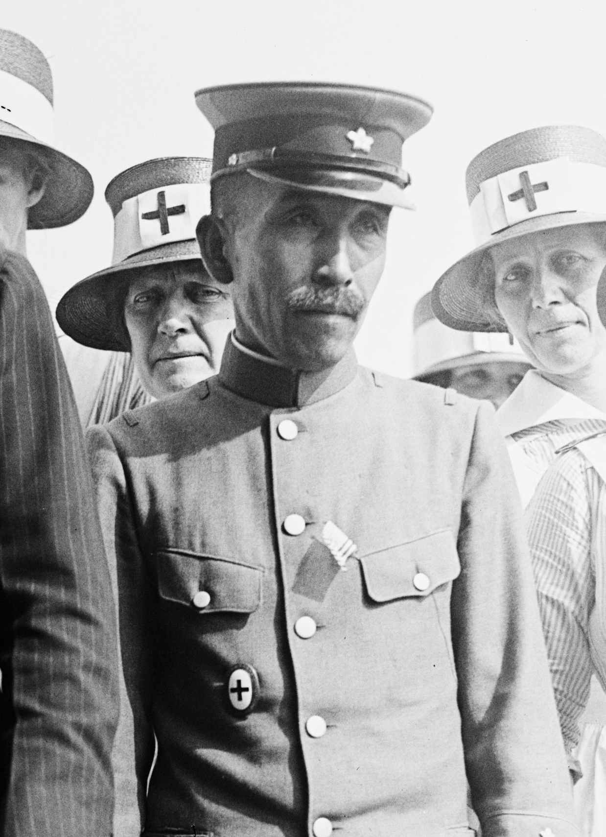 Japanese Red Cross Mission; Arata Ninagawa (蜷川新).